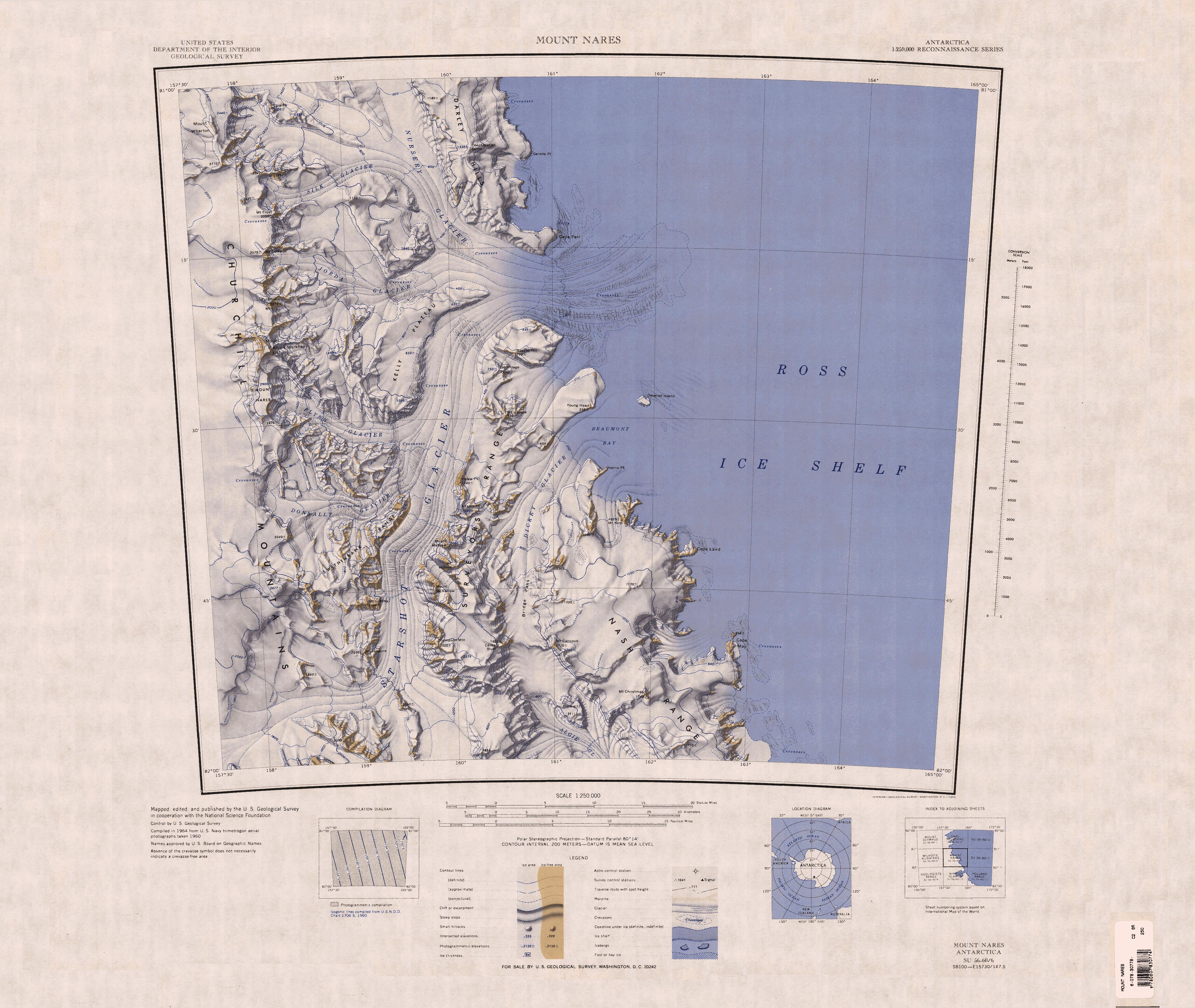 Map of Antarctica by the United States Antarctic Resource Center of the US Geological Survey.